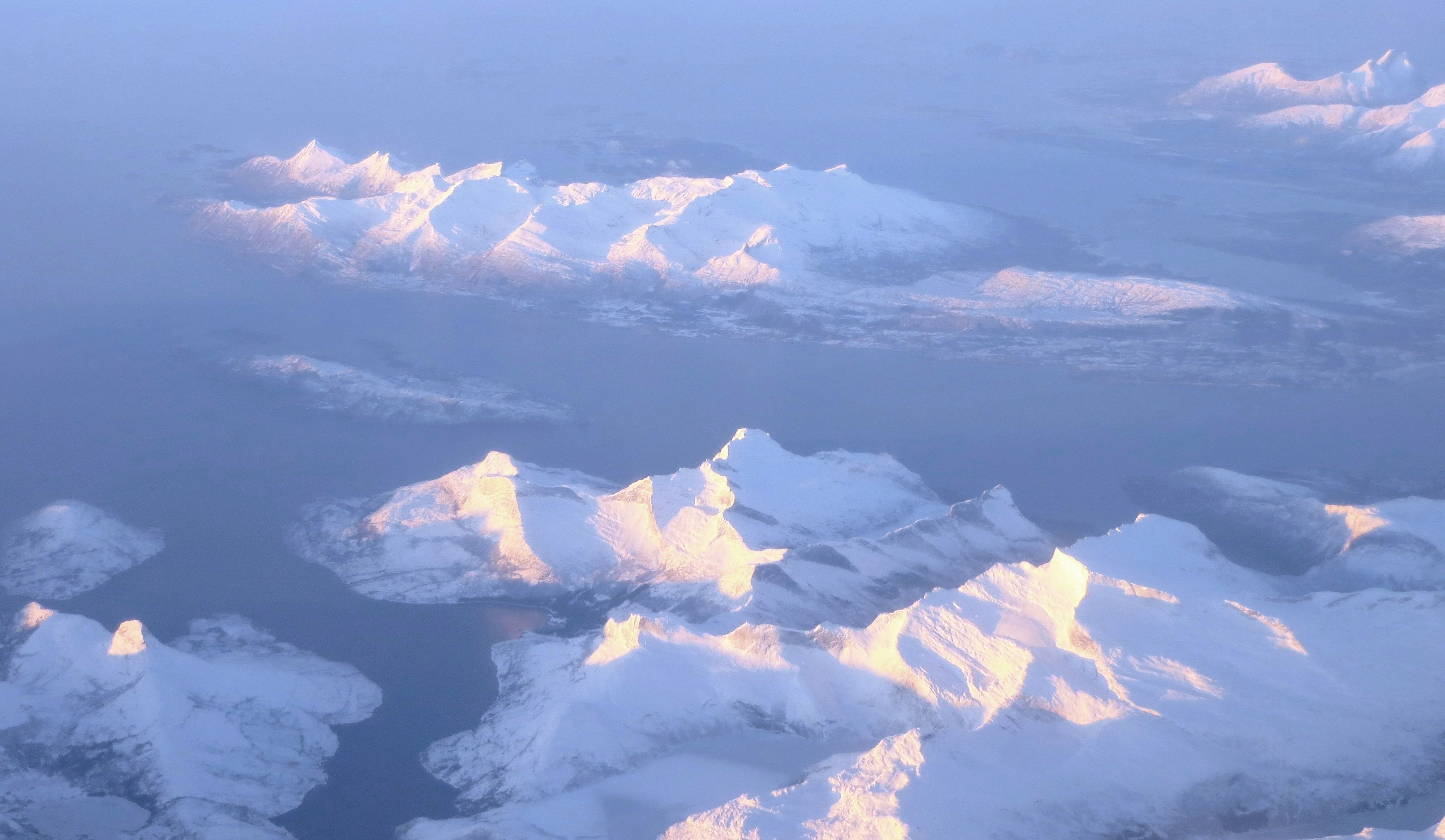 Image from the east towards west, over Steigen municipality - island of Hamarøy, Nordland county, Norway